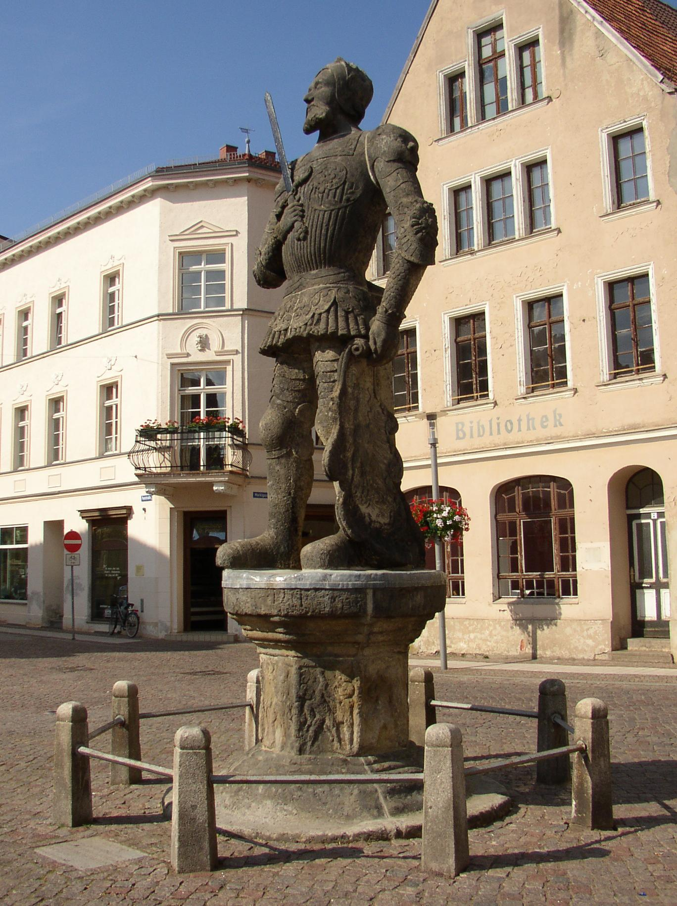 Roland statue inPerleberg in Brandenburg, Germany